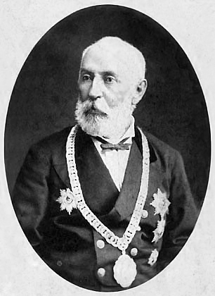 Dimitri Kipiani